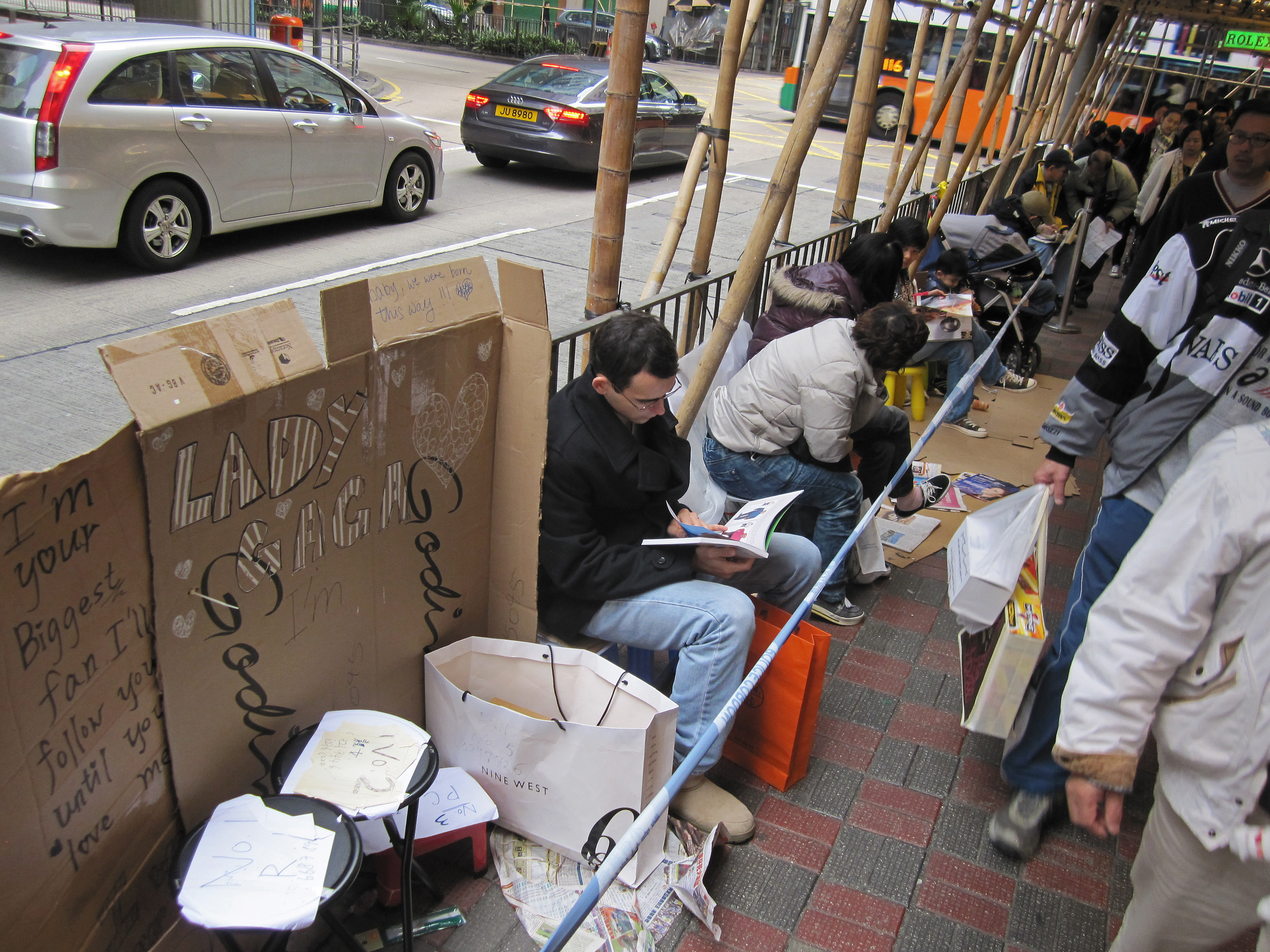 Little monsters lining up for Lady Gaga Tickets in Hong Kong.